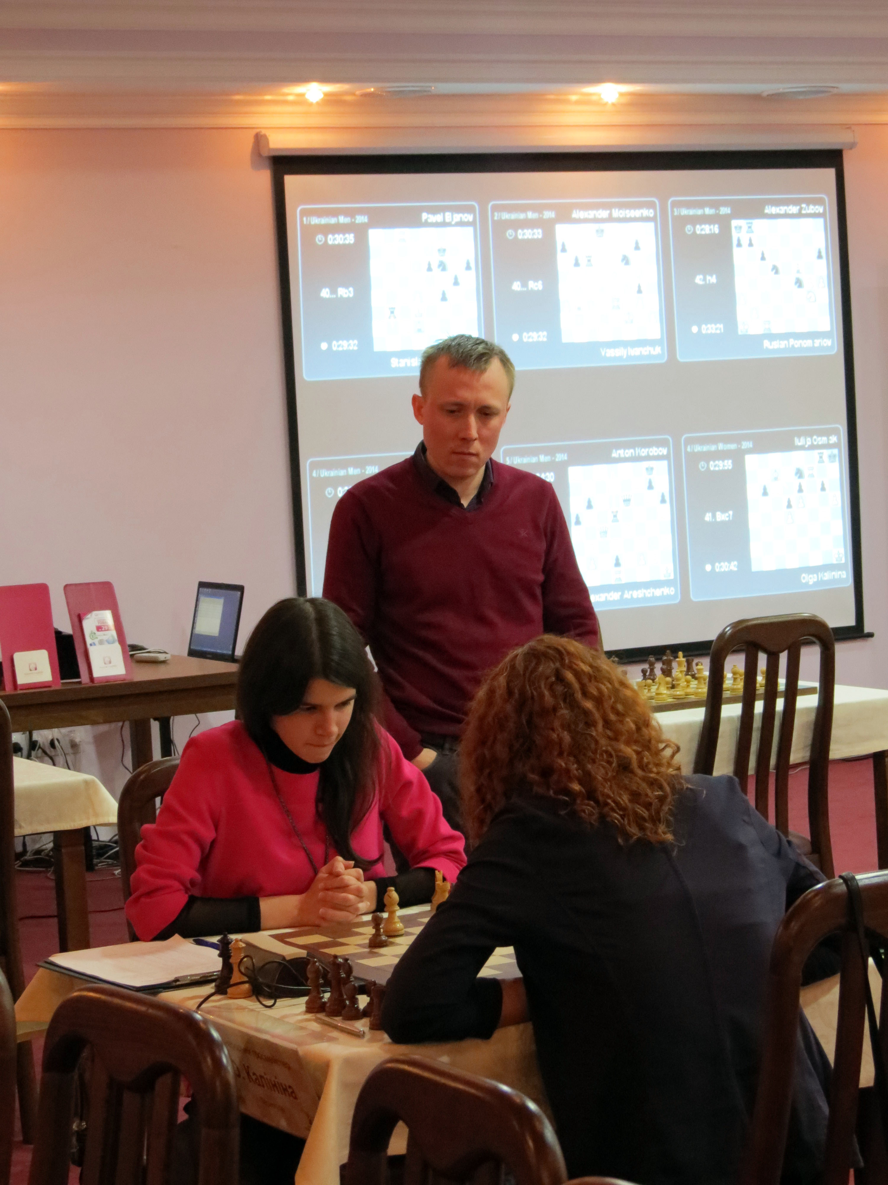 Ruslan Ponomariov watching the game between Iuliya Osmak and Olha Kalinina at Ukrainian championship-2014